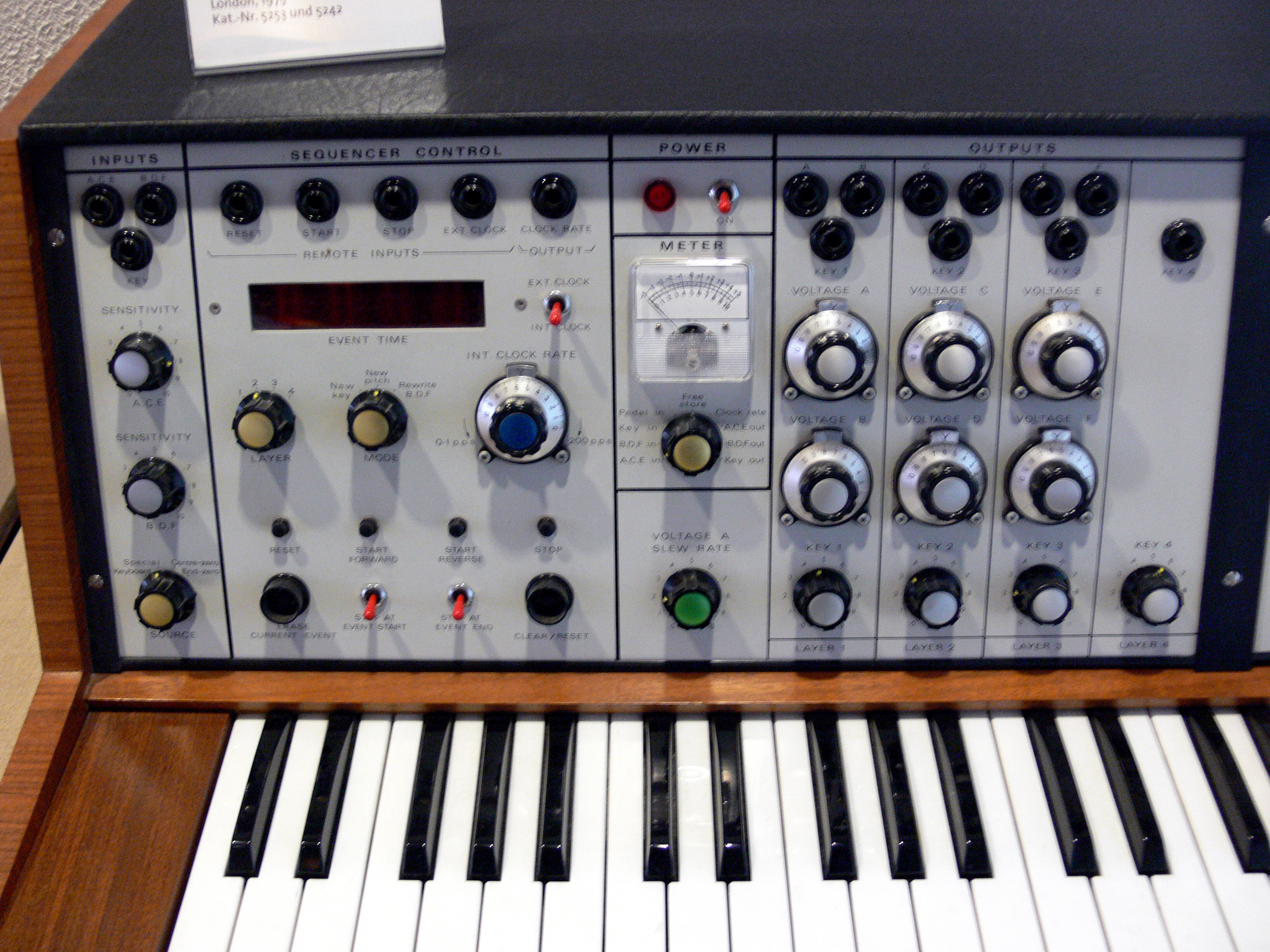 Sequencer, Electronic Music Studios Synthi Sequencer 256 (1971) (catalog & datasheet) Musikinstrumentenmuseum Berlin